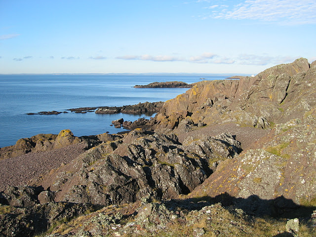 Søsterøyene islands, Ytre Hvaler national park